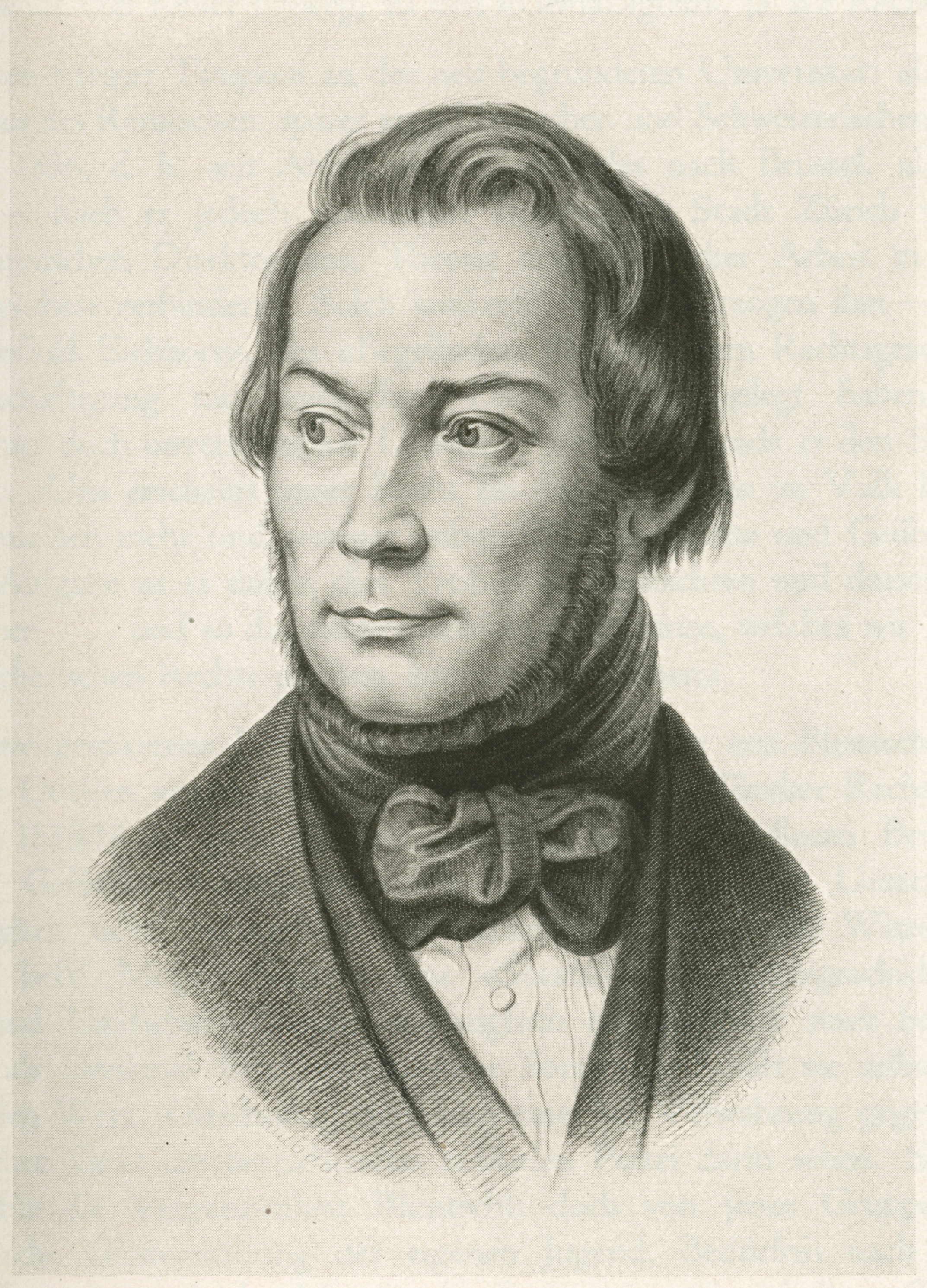 Portrait of Johann Caspar Bluntschli (1808–1881)